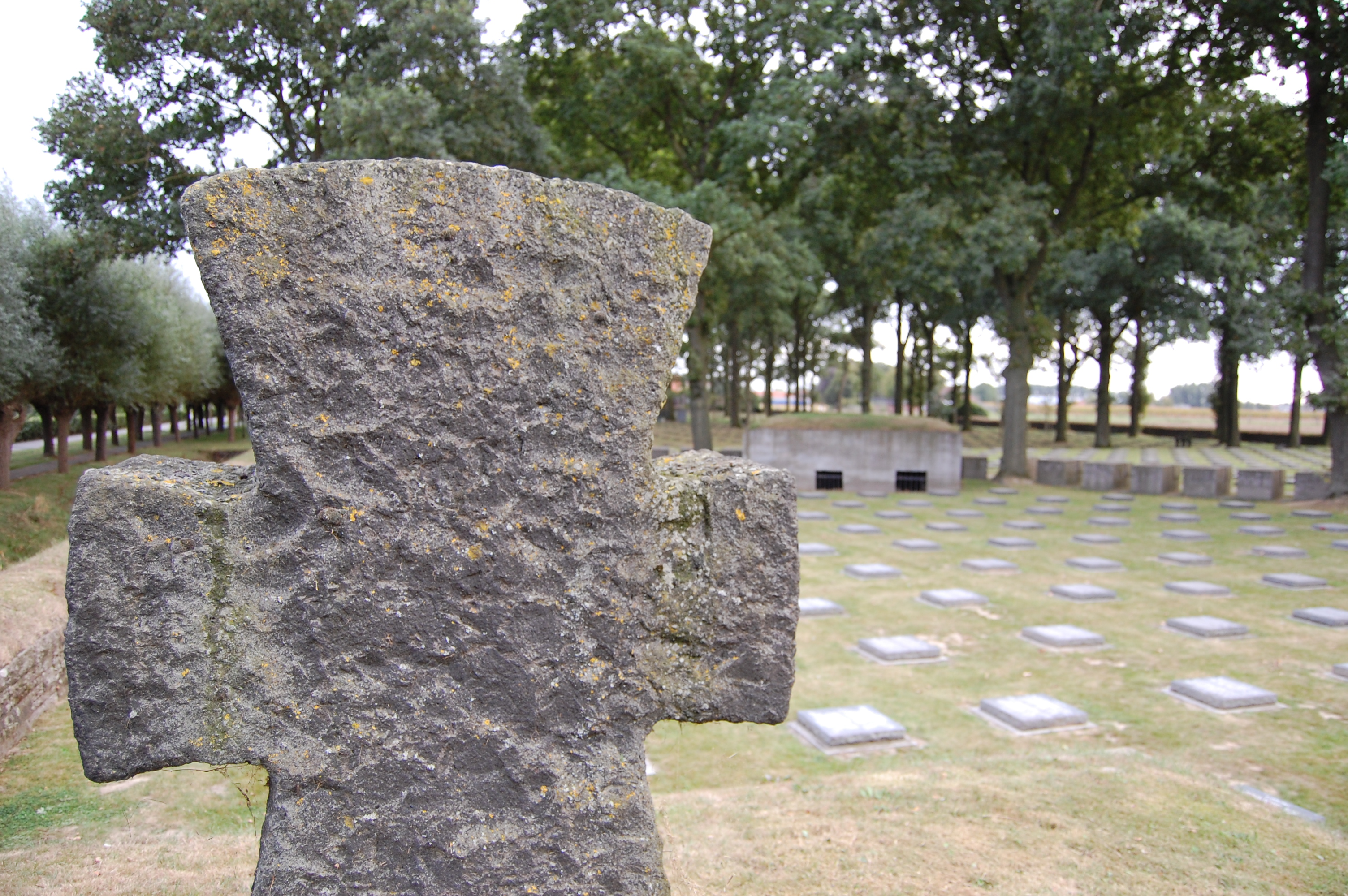 German cemetary of World War I, Langemark-Poelkapelle, Belgium. Stone cross and bunker line.